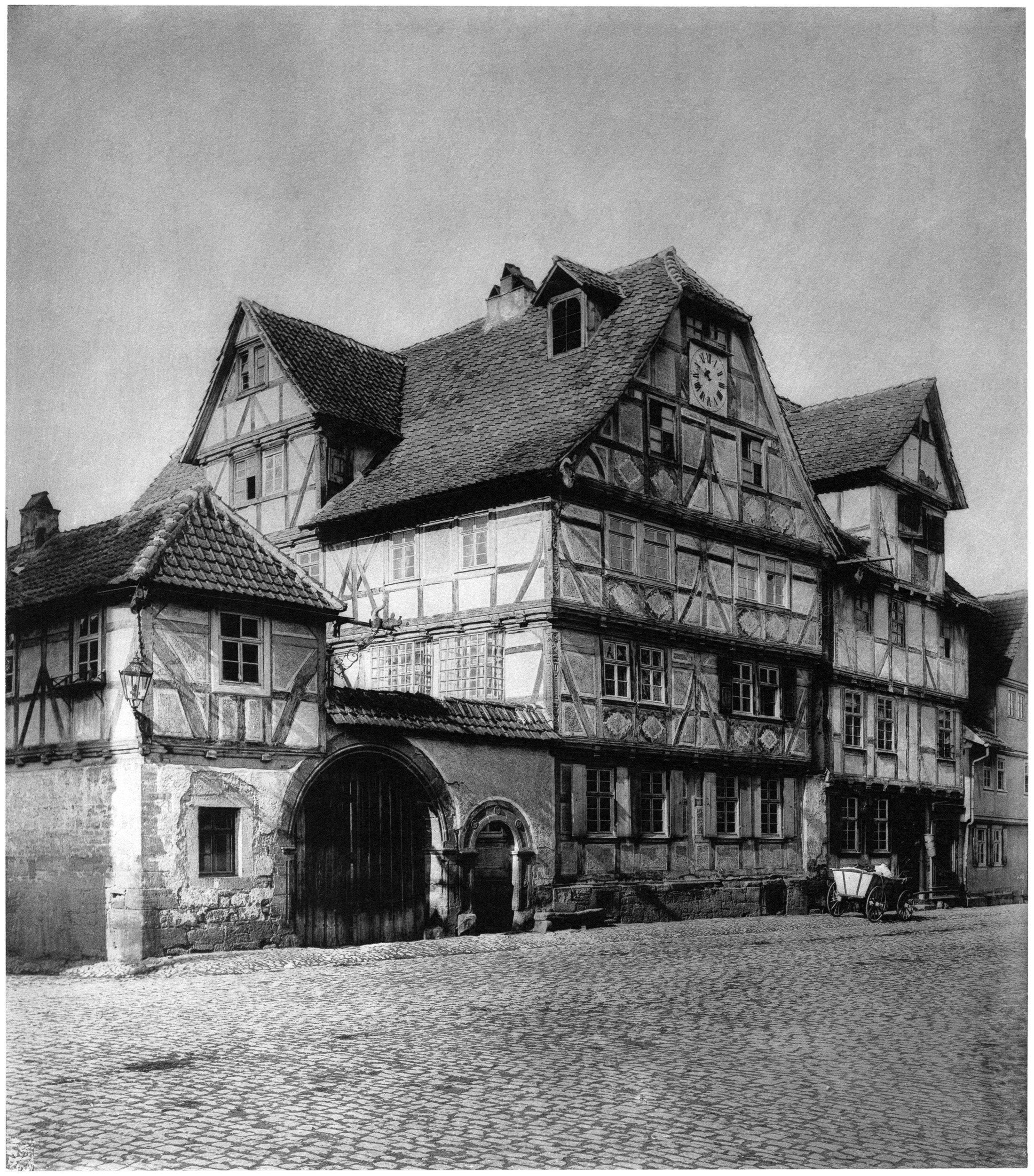 Table 24 / Title on the table: Wanfried Town Hall c. 1640 / Index title: Wanfried. Town Hall.